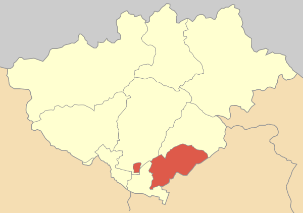 Locator map of Doxatos municipality (Δήμος Δοξάτου) in Drama prefecture (Νομός Δράμας) in Greece.